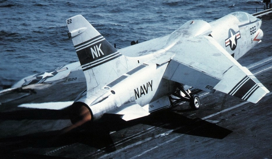 A U.S. Navy Vought RF-8G Crusader from Photographic Reconnaissance Squadron VFP-63 Det.2 "Eyes of the Fleet" is launched from the aircraft carrier USS Coral Sea (CV-43). VFP-63 Det.2 was assigned to Carrier Air Wing 14 (CVW-14) aboard the Coral Sea for a deployment to the Western Pacific and the Indian Ocean from 13 November 1979 to 11 June 1980.